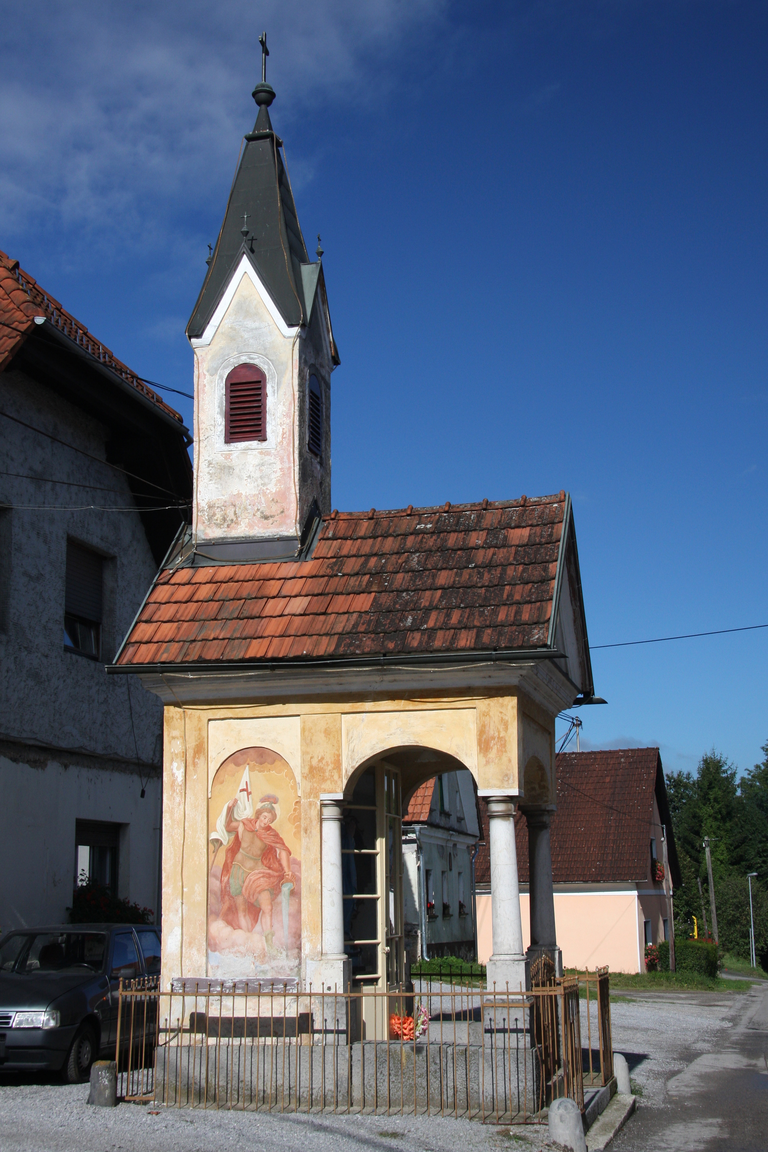 Chapel in Blatna Brezovica, Slovenia, with frescoes by Simon Ogrin (1851-1930)